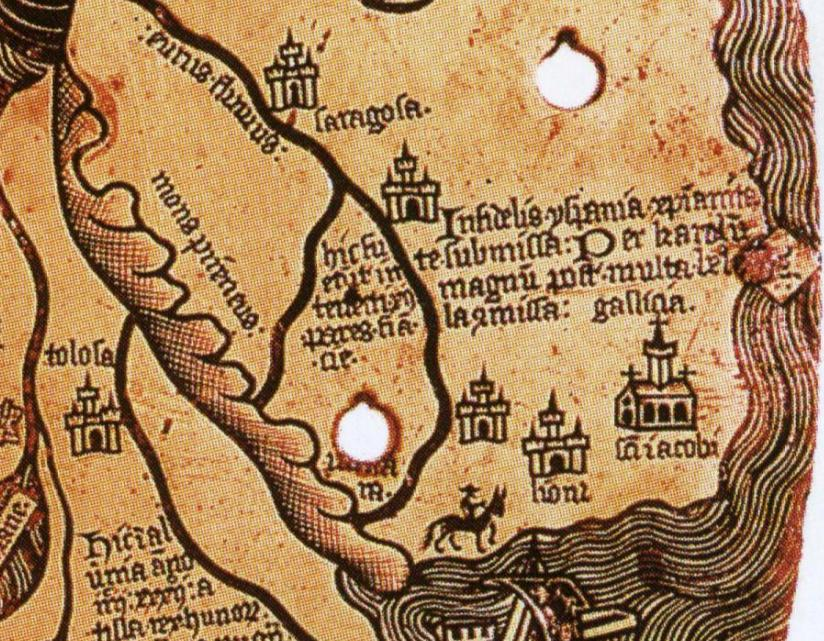 Detail showing northwest Iberian Peninsula on the Borgia map.